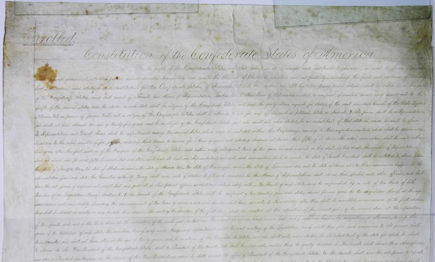 Image of portion of Constitution of Confederate States of America.